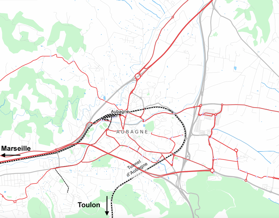 Rail map of Aubagne